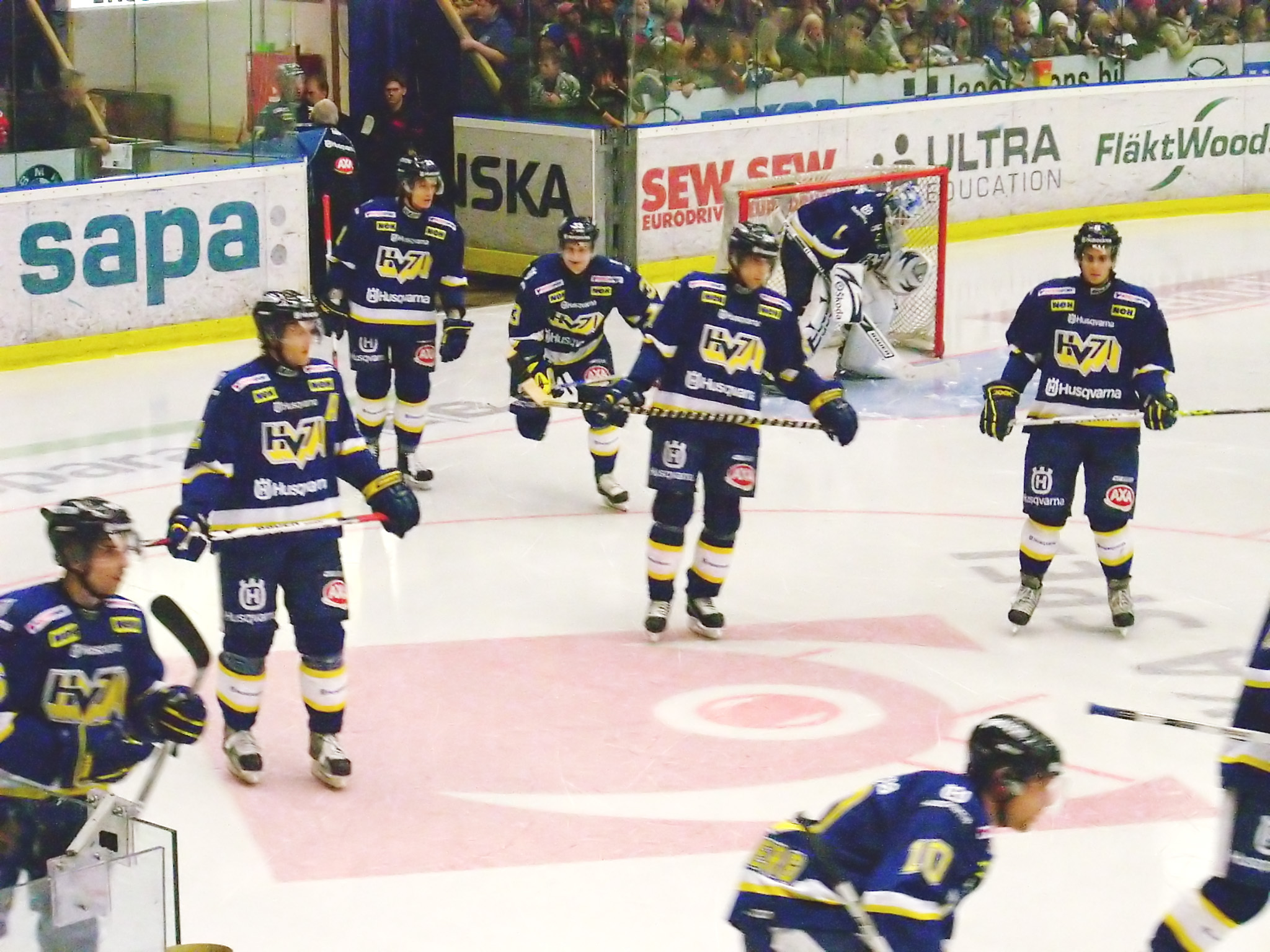 Ice Hockey players from HV71 enter ice before the third period during the Swedish Elite League home game versus Luleå HF. HV71 won the game, 4-0.